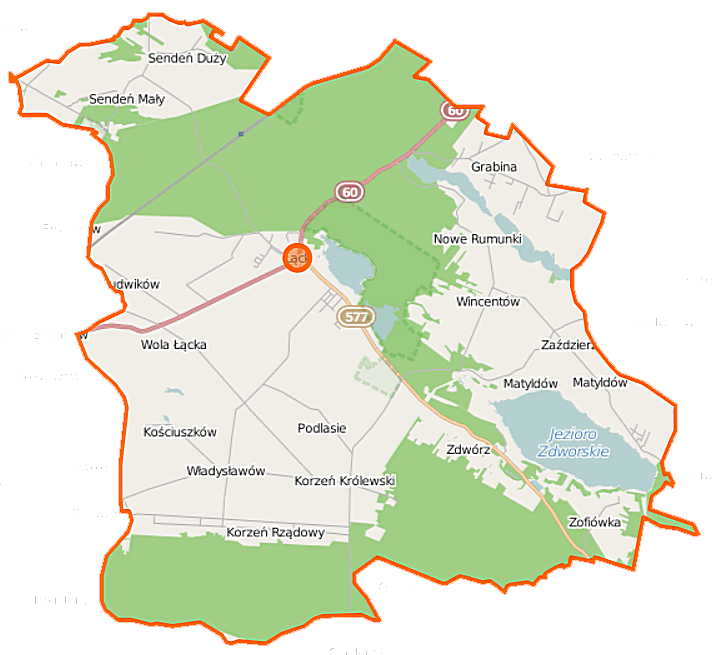 Map of Gmina Łąck, Poland This map of Łąck (gmina) was created from OpenStreetMap project data, collected by the community. This map may be incomplete, and may contain errors. Don't rely solely on it for navigation. Border coordinates52.509119.5299←↕→19.724952.4001